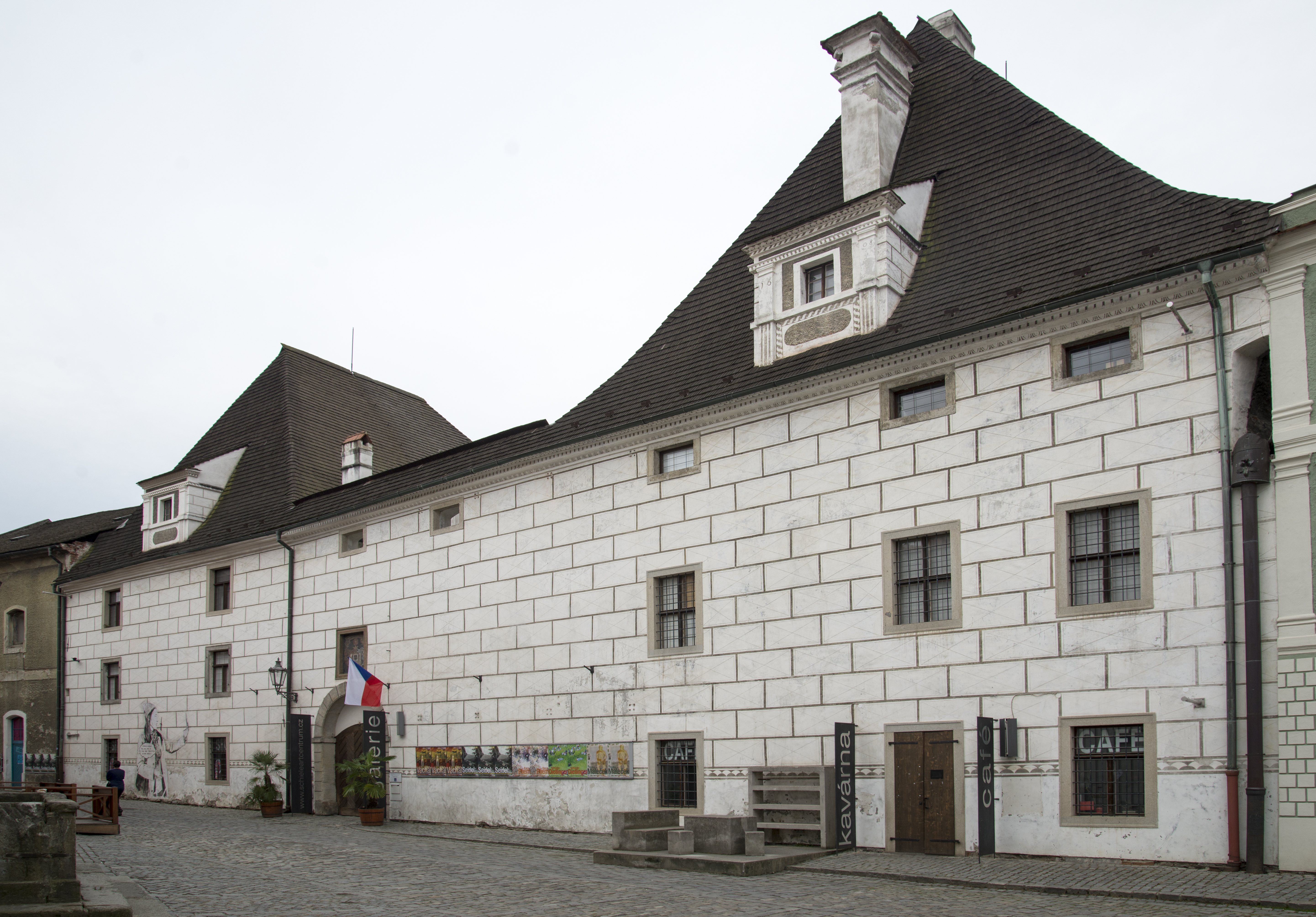 Brewery, Široká 71, Vnitřní Město, Český Krumlov.